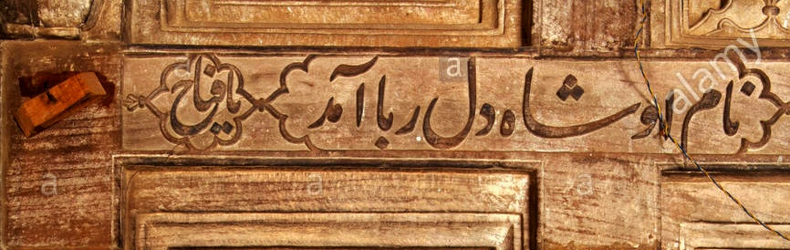 Shahi Mosque Daira Shah Muhibbullah